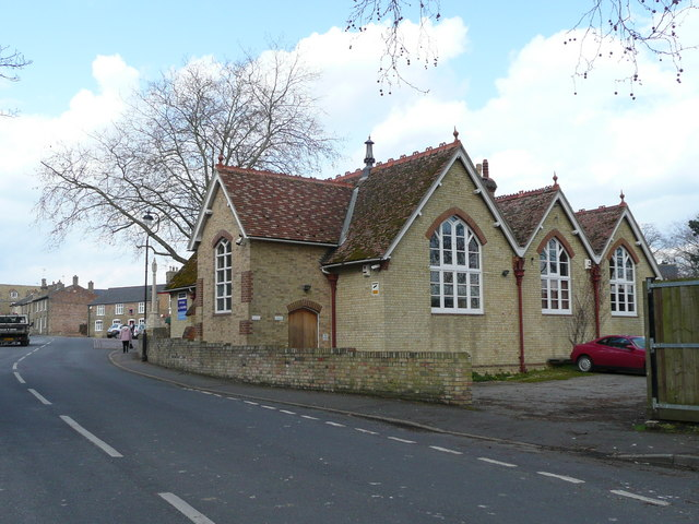 Former Primary School, Stretham The former school has been converted into a recording studio